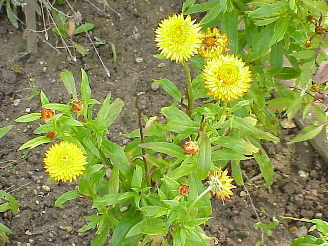 Species: Xerochrysum bracteatum Family: Asteraceae Image No. 9